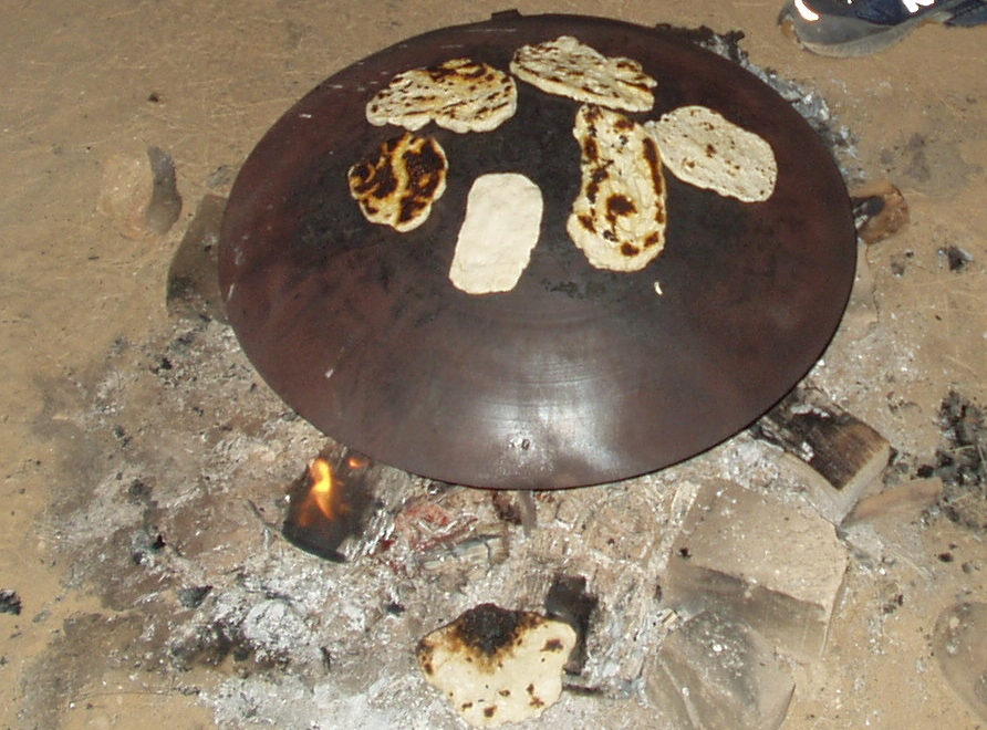 Pita being made on a fire.